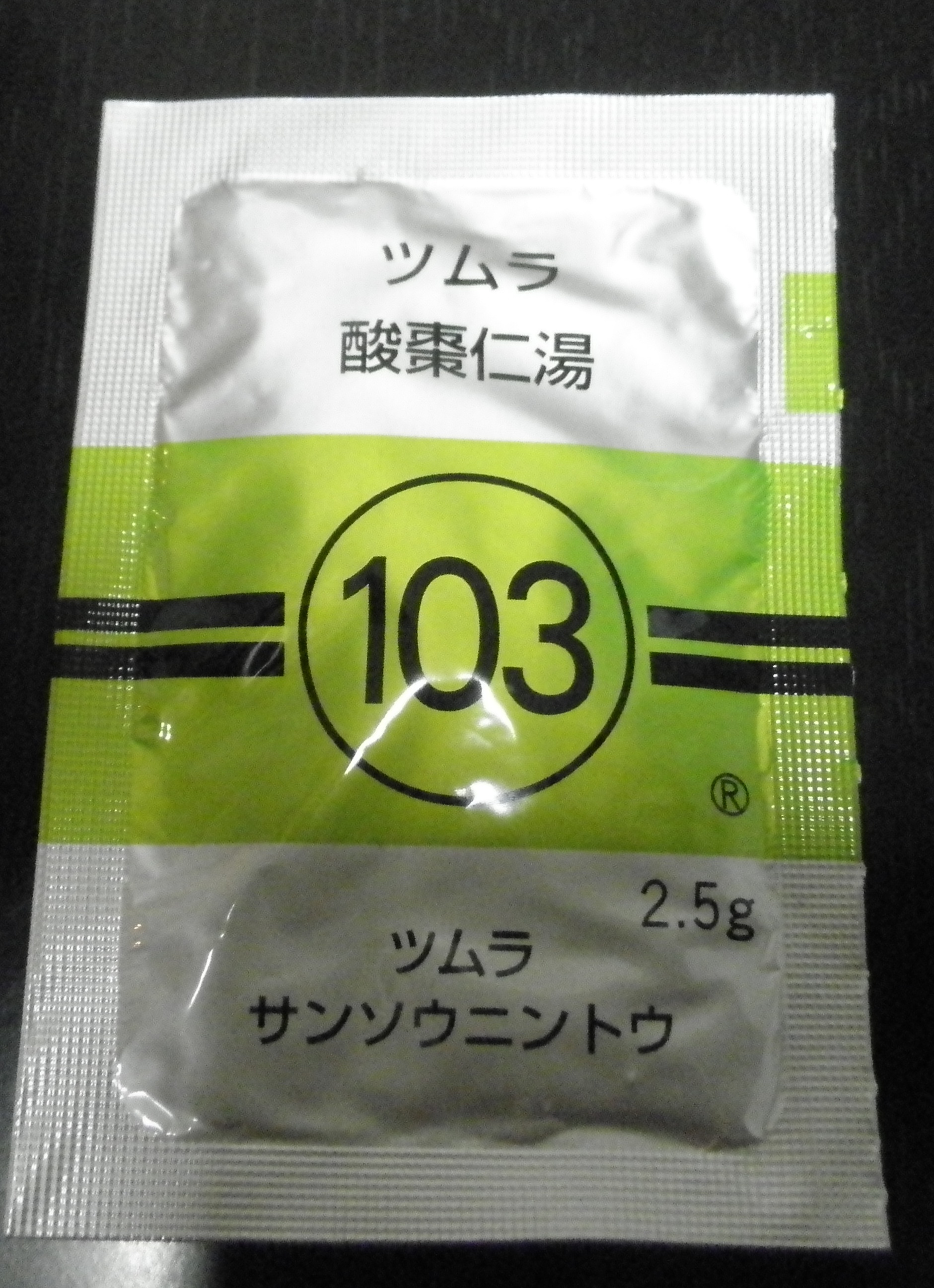 Chinese medicine whose name is Sansounintou